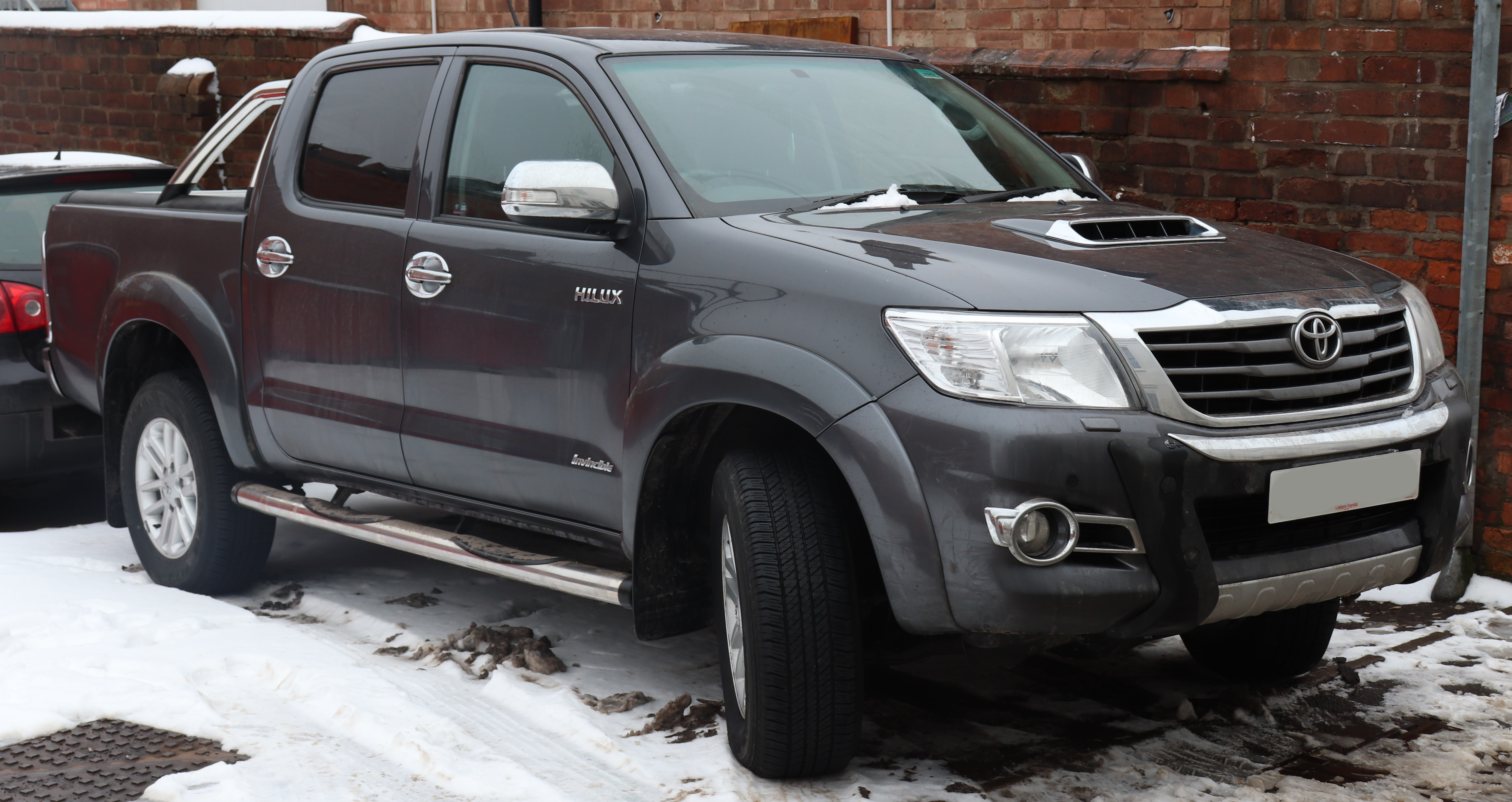 2015 Toyota HiLux Invincible D-4D 4X4 3.0 Taken in Leamington Spa